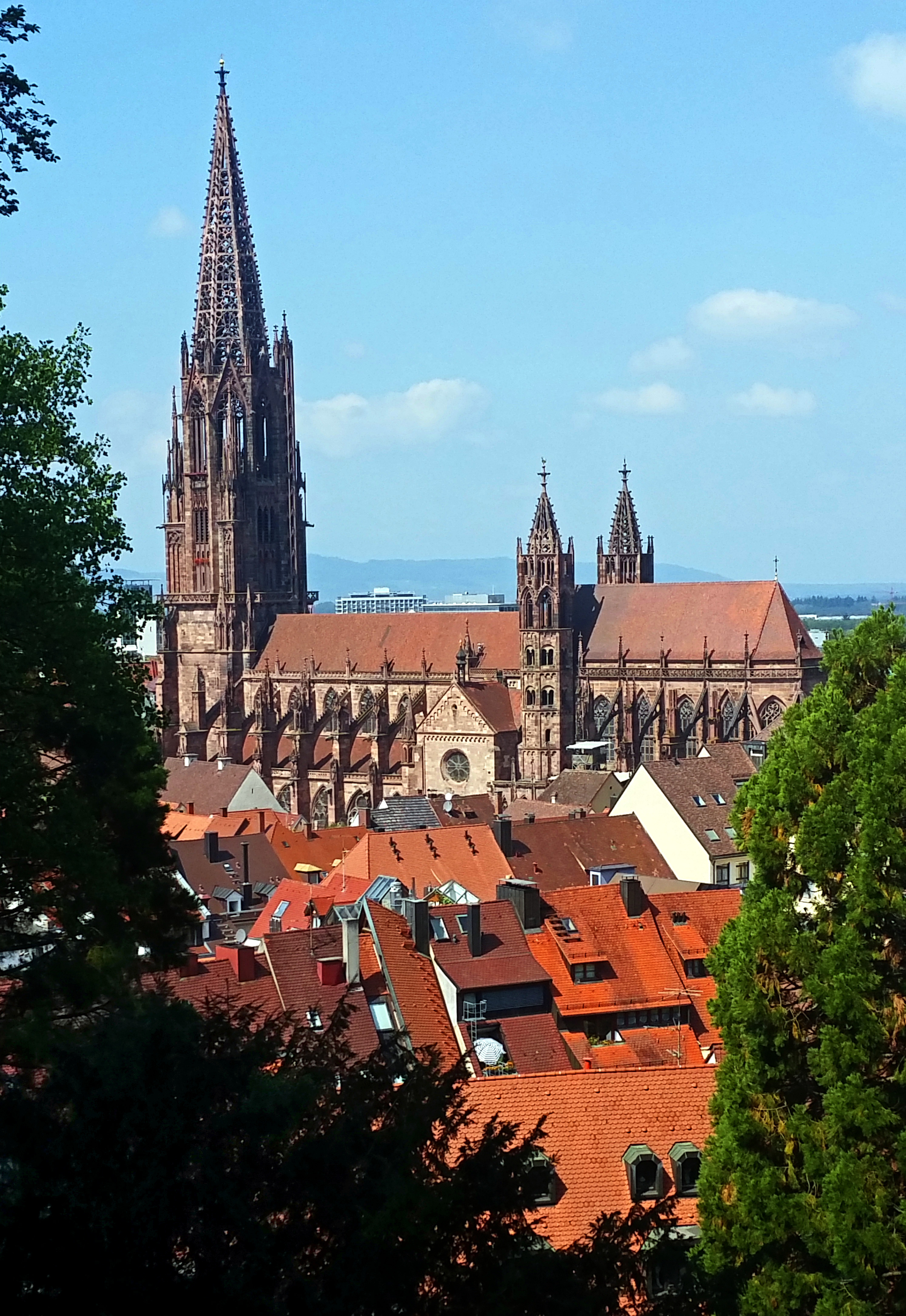 Freiburg Minster